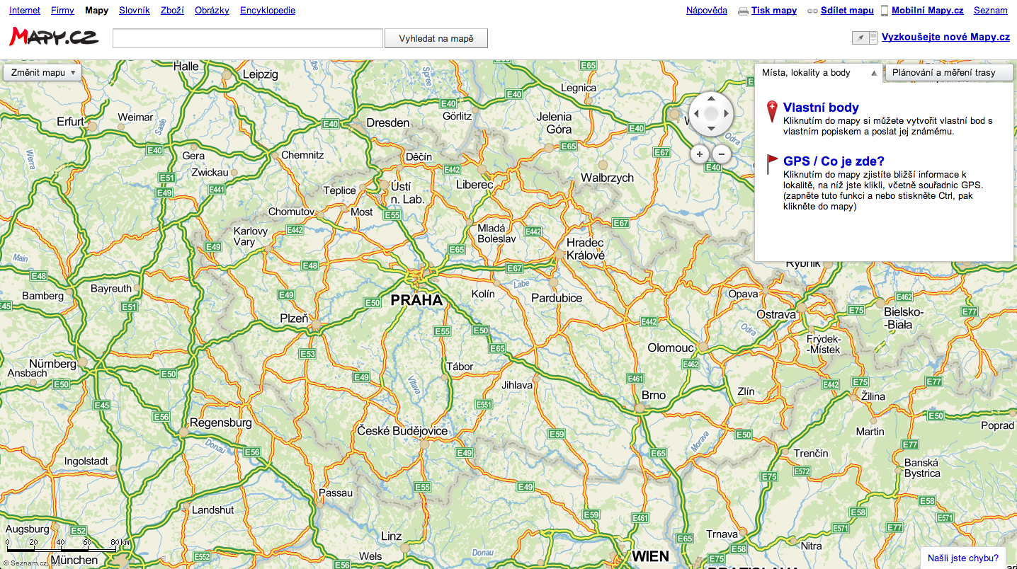 Mapy.cz in 2014 year.